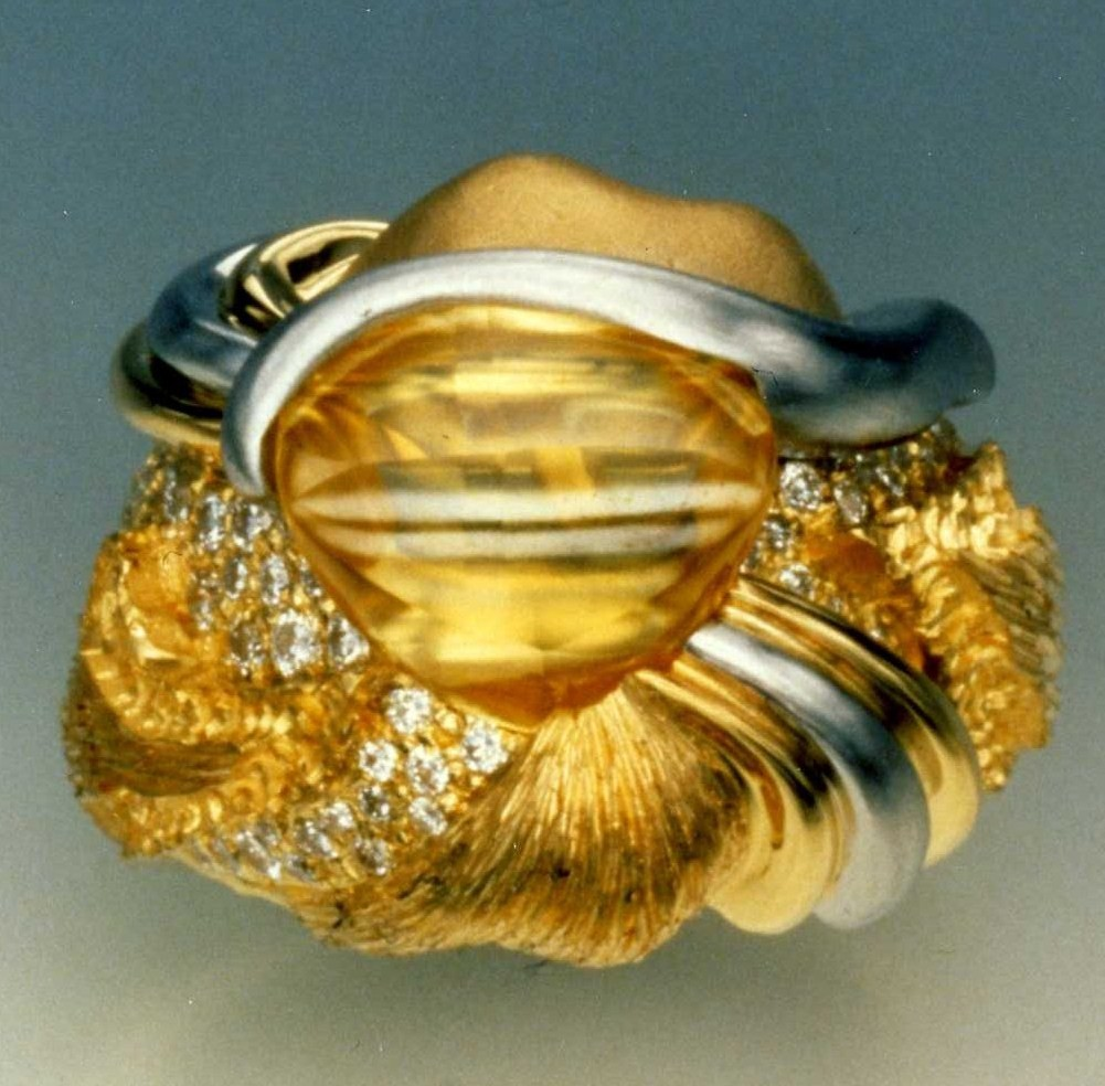 Cynnabar ring designed for Hillary Rodham Clinton to wear at the 1992 inaugural ball.